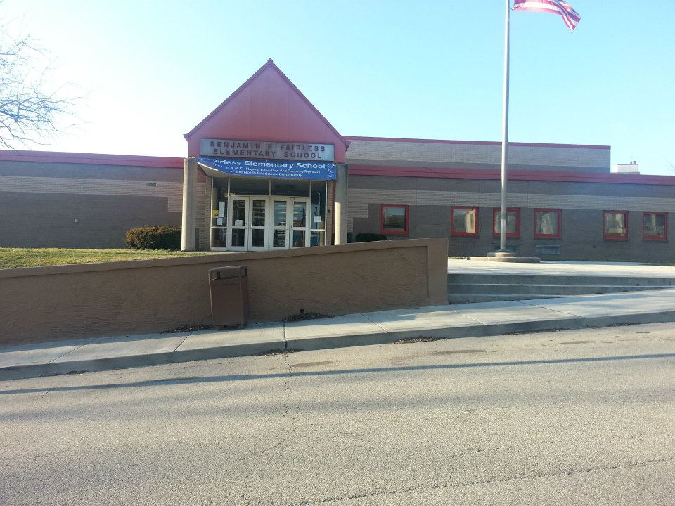 Fairless Elementary School in North Braddock, PA is the only Woodland Hills School District school located in North Braddock Borough.